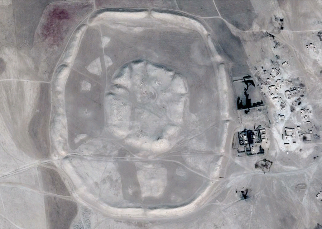 the remains of Haddu. Hasakah province, Syria